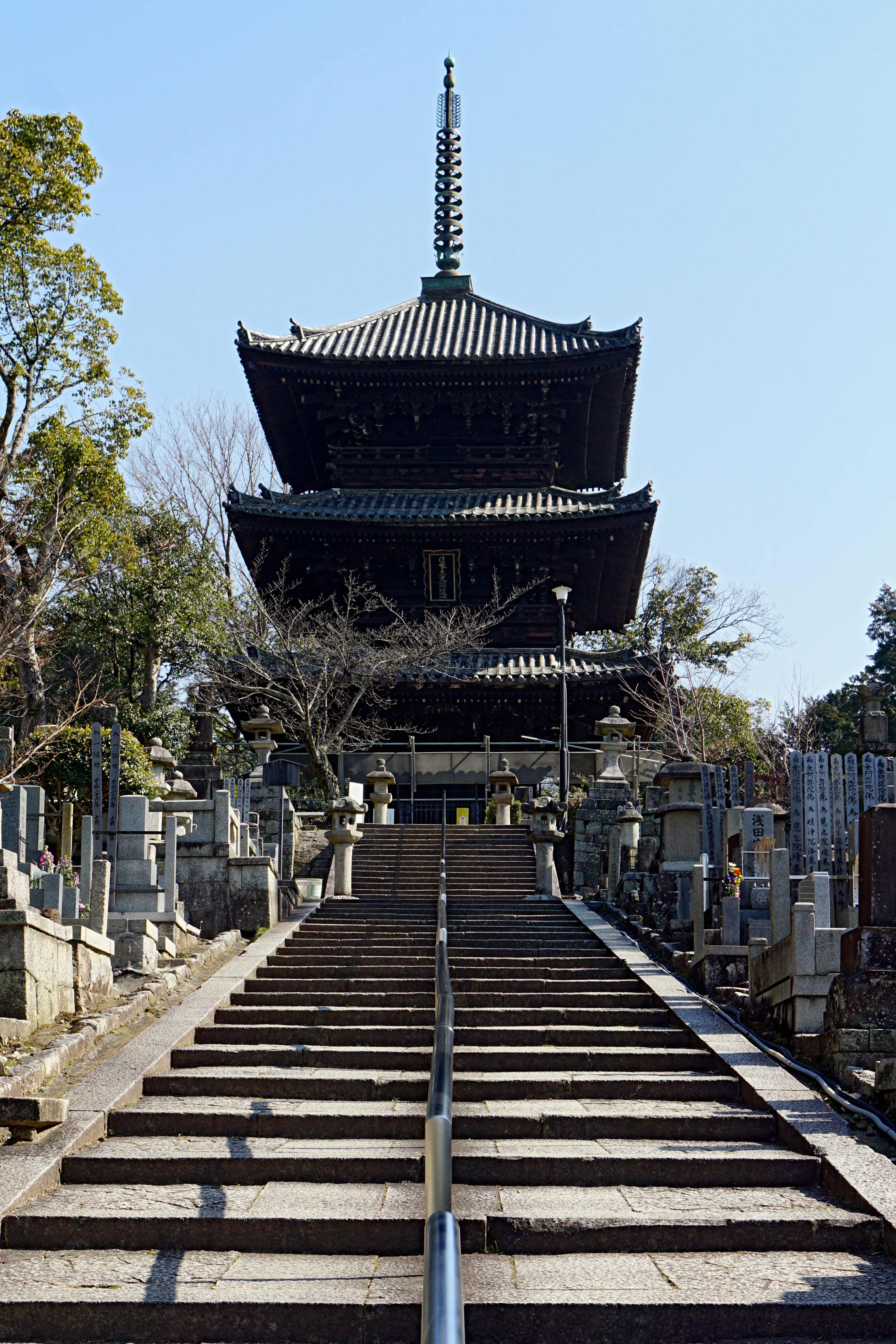 Konkaikōmyō-ji in Kyoto, Kyoto prefecture, Japan